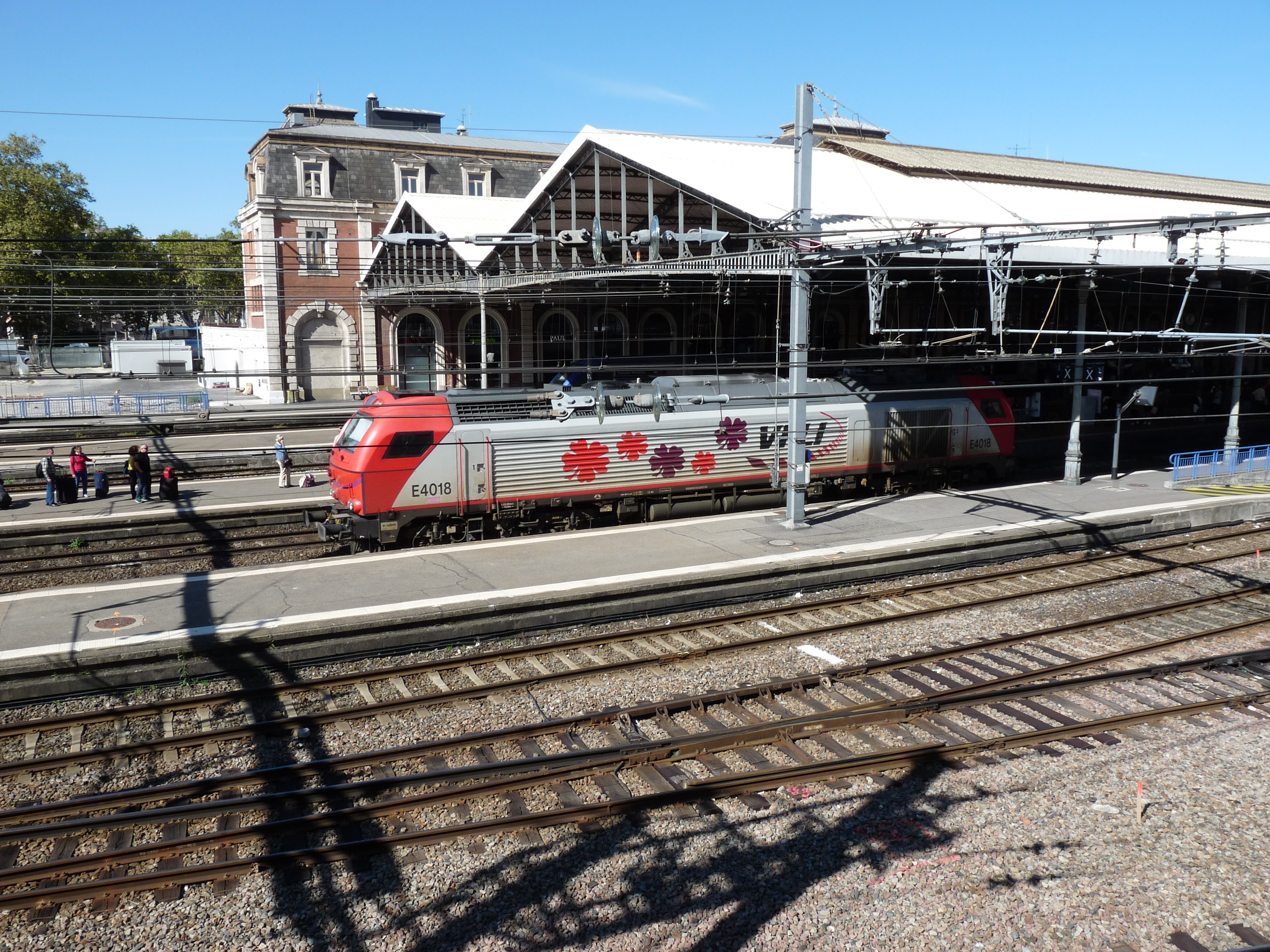 Toulouse Matabiau station seen from the east side